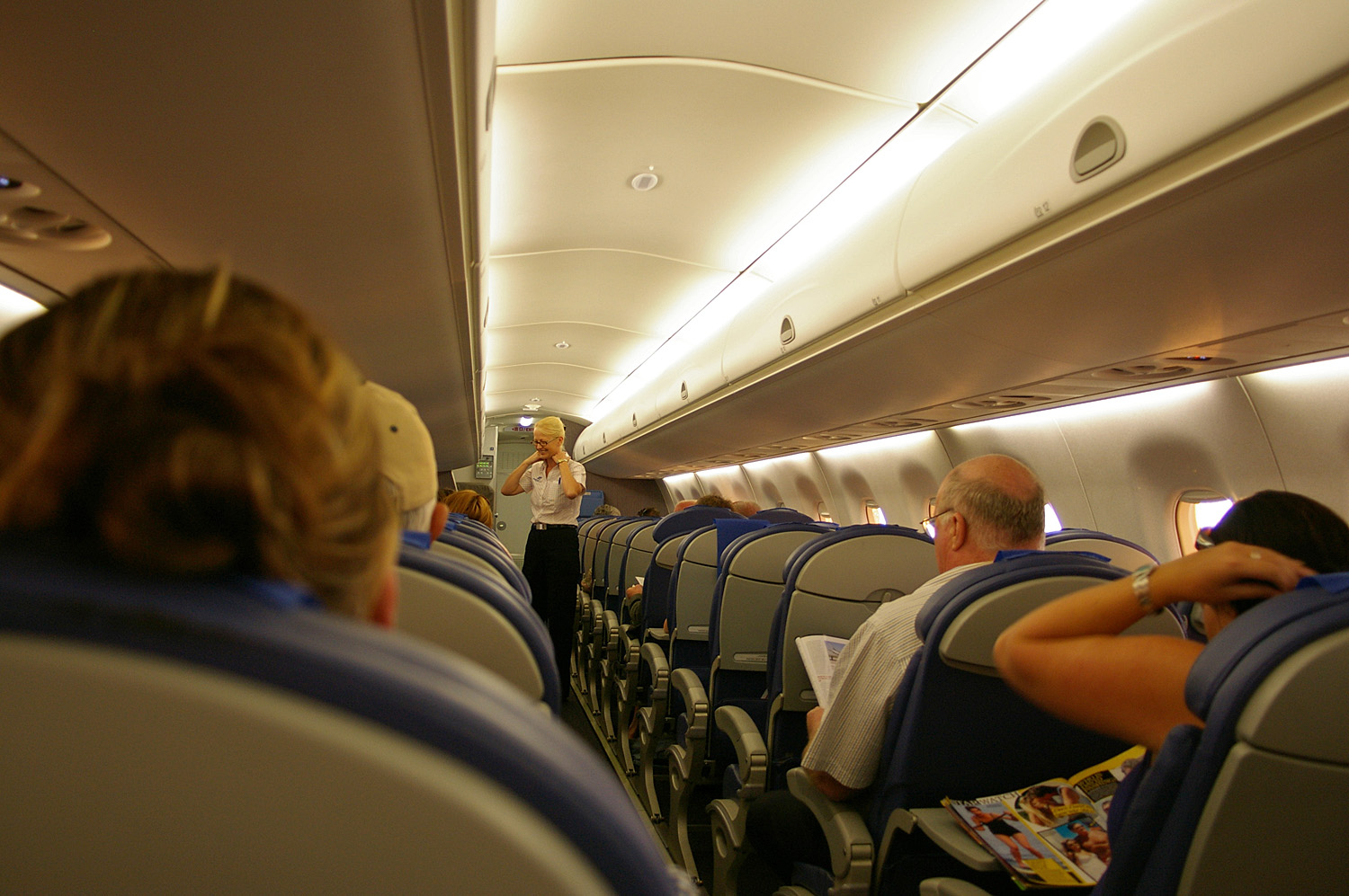 Interior of the Embraer 170 on an Airnorth flight.